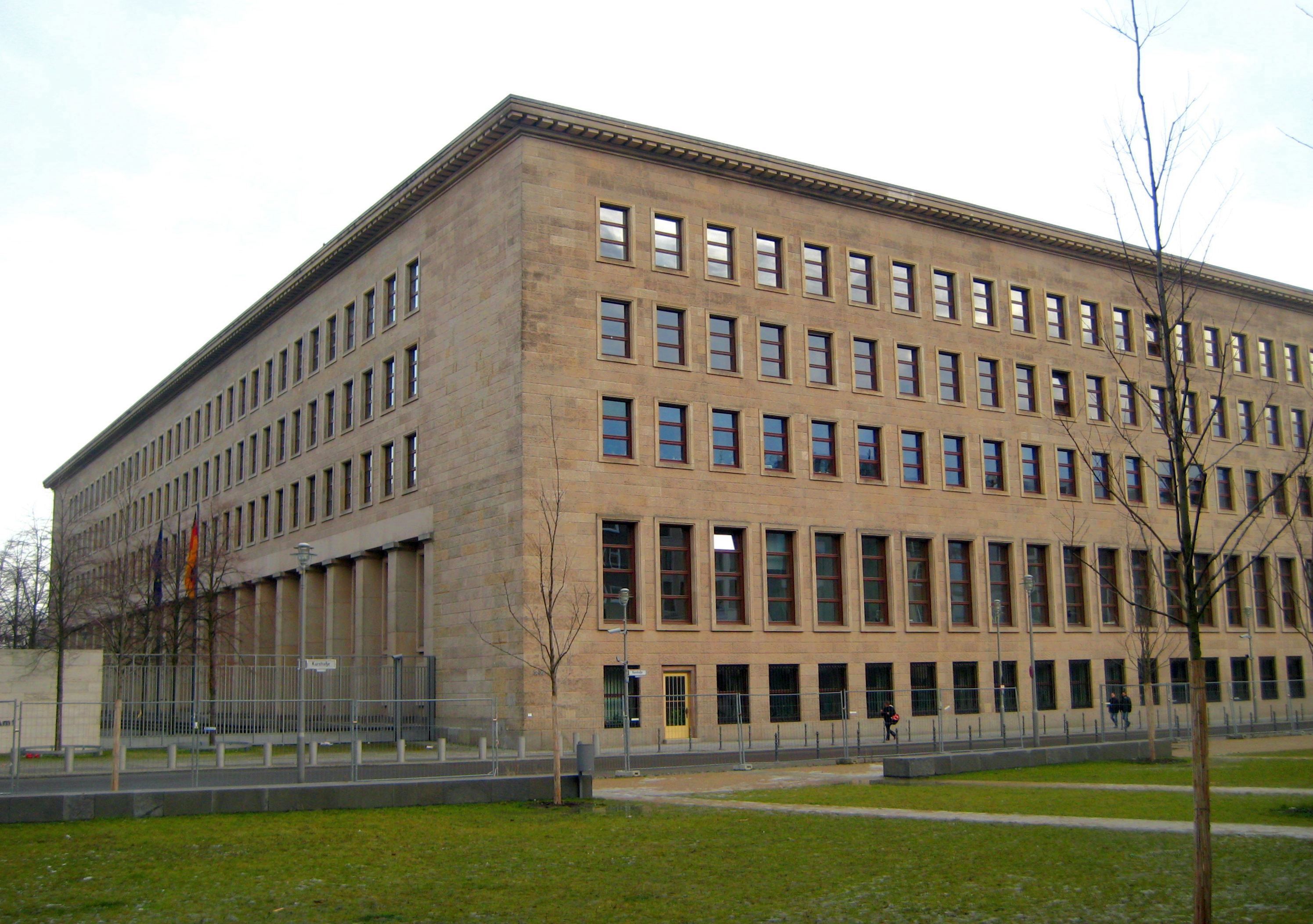 North side of the annex to the lost Reichsbank building by architect Heinrich Wolff, built 1934-1940. It is now part of the Auswärtiges Amt, the foreign ministry of the Federal Republic of Germany.